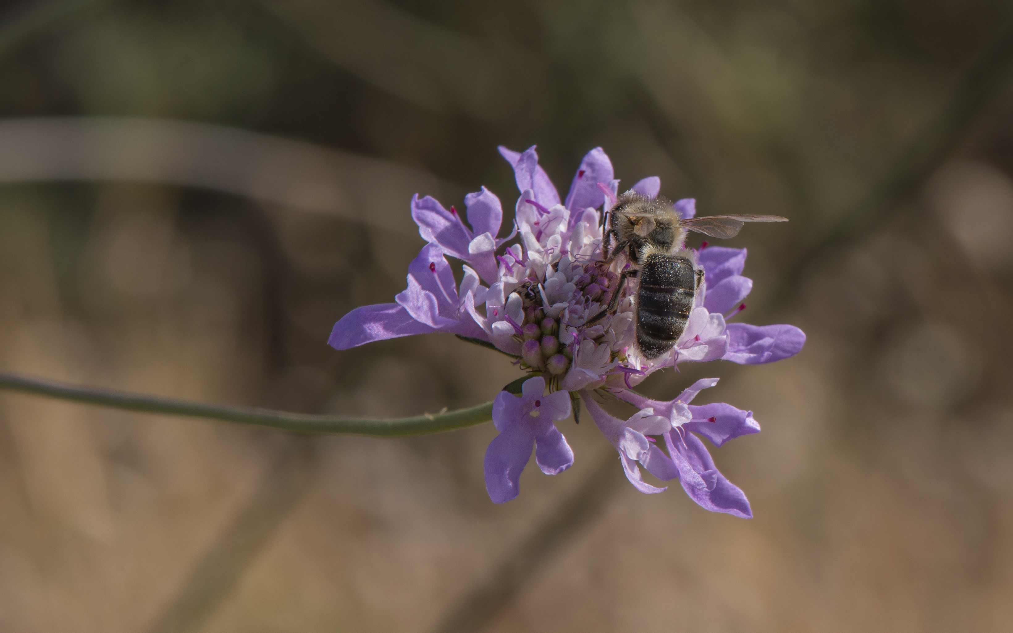 An Apis mellifera subsp. mellifera (European dark bee) on a flower of Scabiosa atropurpurea subsp. maritima (Sweet scabious).